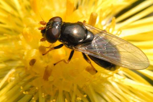 Cheilosia pagana from Commanster, Belgian High Ardennes .